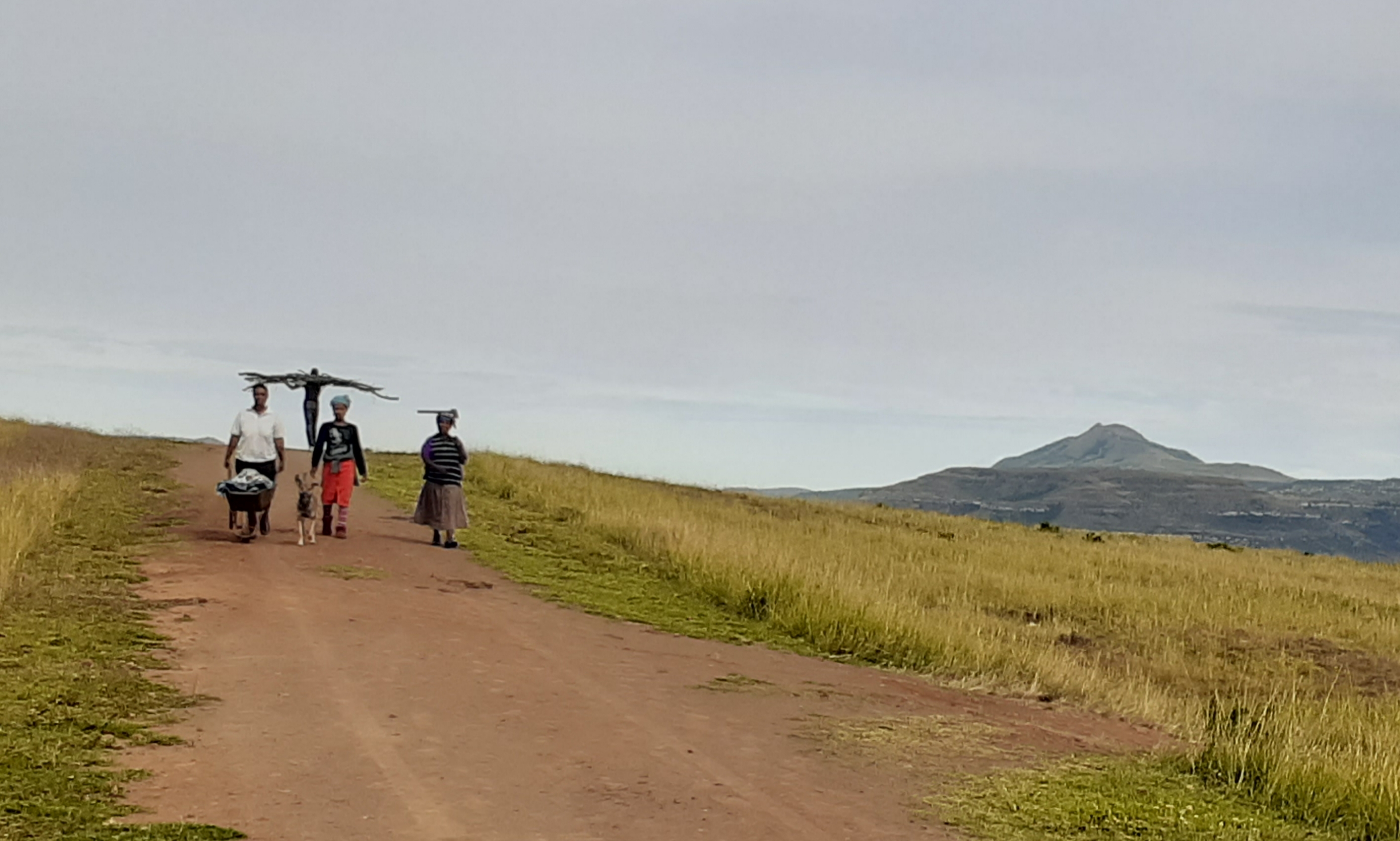 Every morning, the women in rural South Africa walk many miles collecting water and wood for their households. This is an image with the theme "Africa on the Move or Transport" from: South Africa